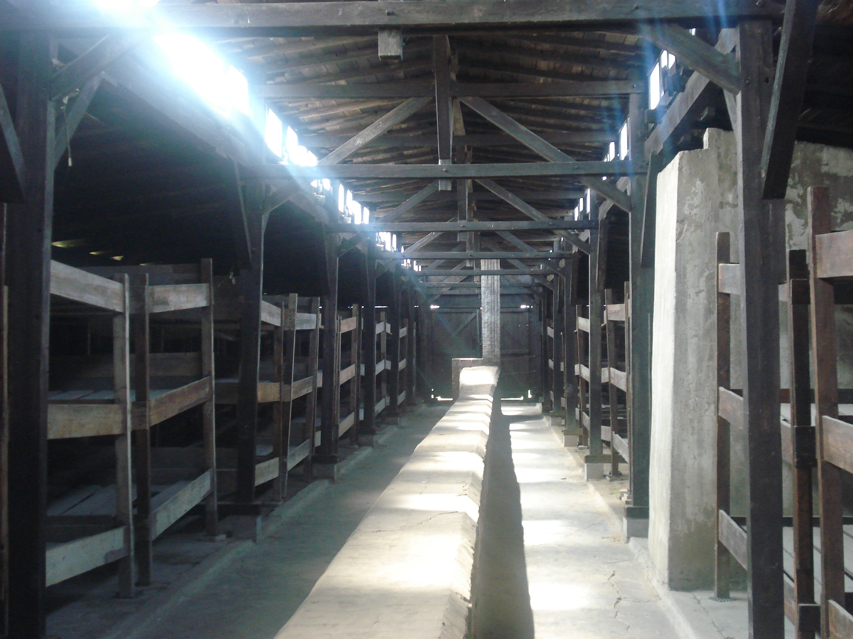 Baracks in Auschwitz